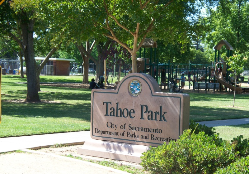 Sign at the southern entrance of Sacramento's Tahoe Park (the city park, not the neighborhood) at 60th Street and 11th Avenue.